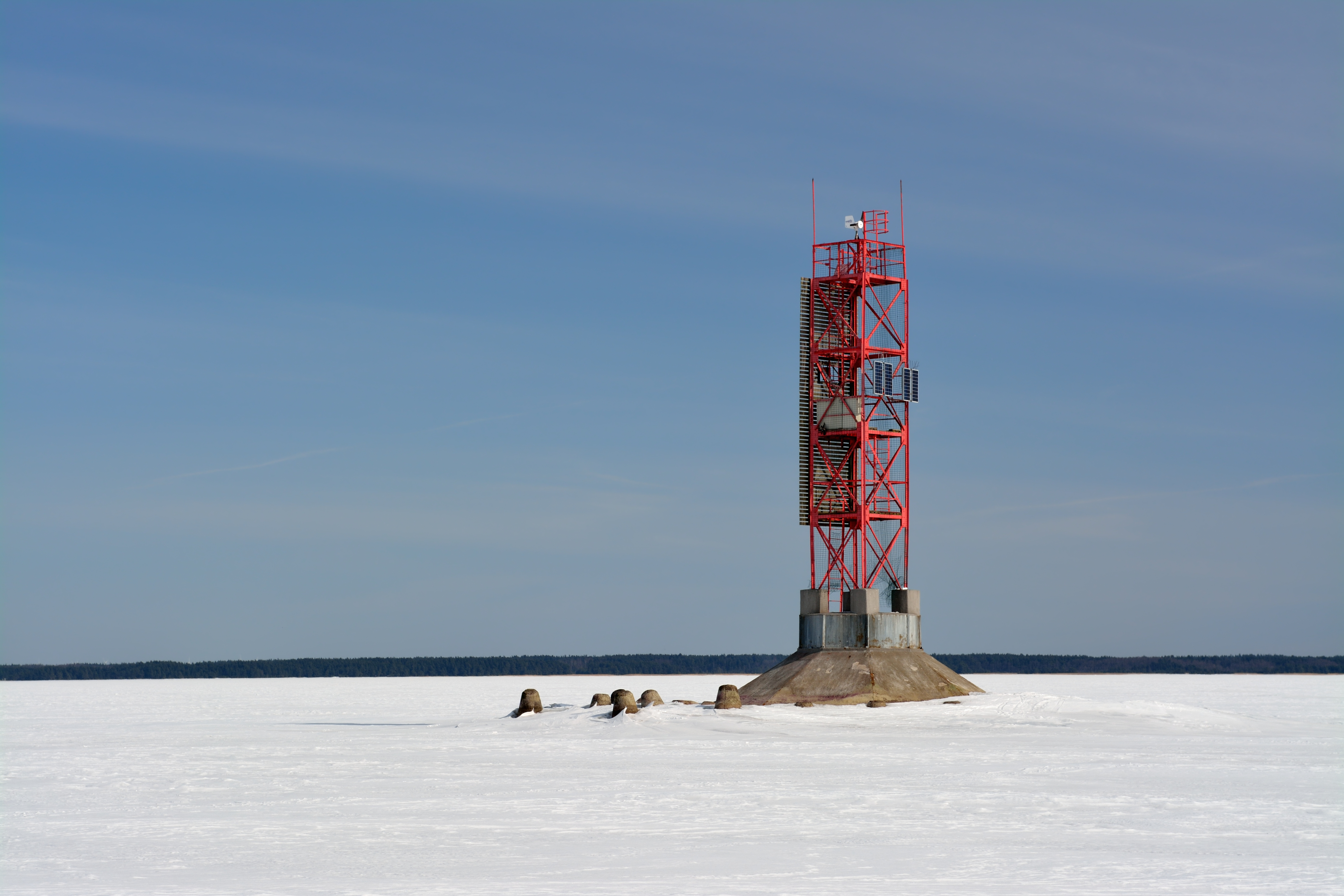 Uppholm lightbeacon. Height from the ground level 12 m, elevation of light from sea level 9 m.